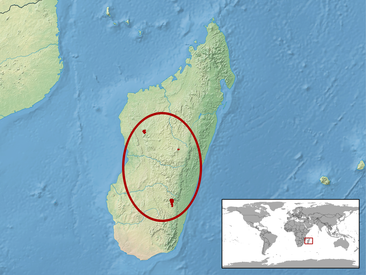 geographic distribution of Calumma hilleniusi (Native: Madagascar)